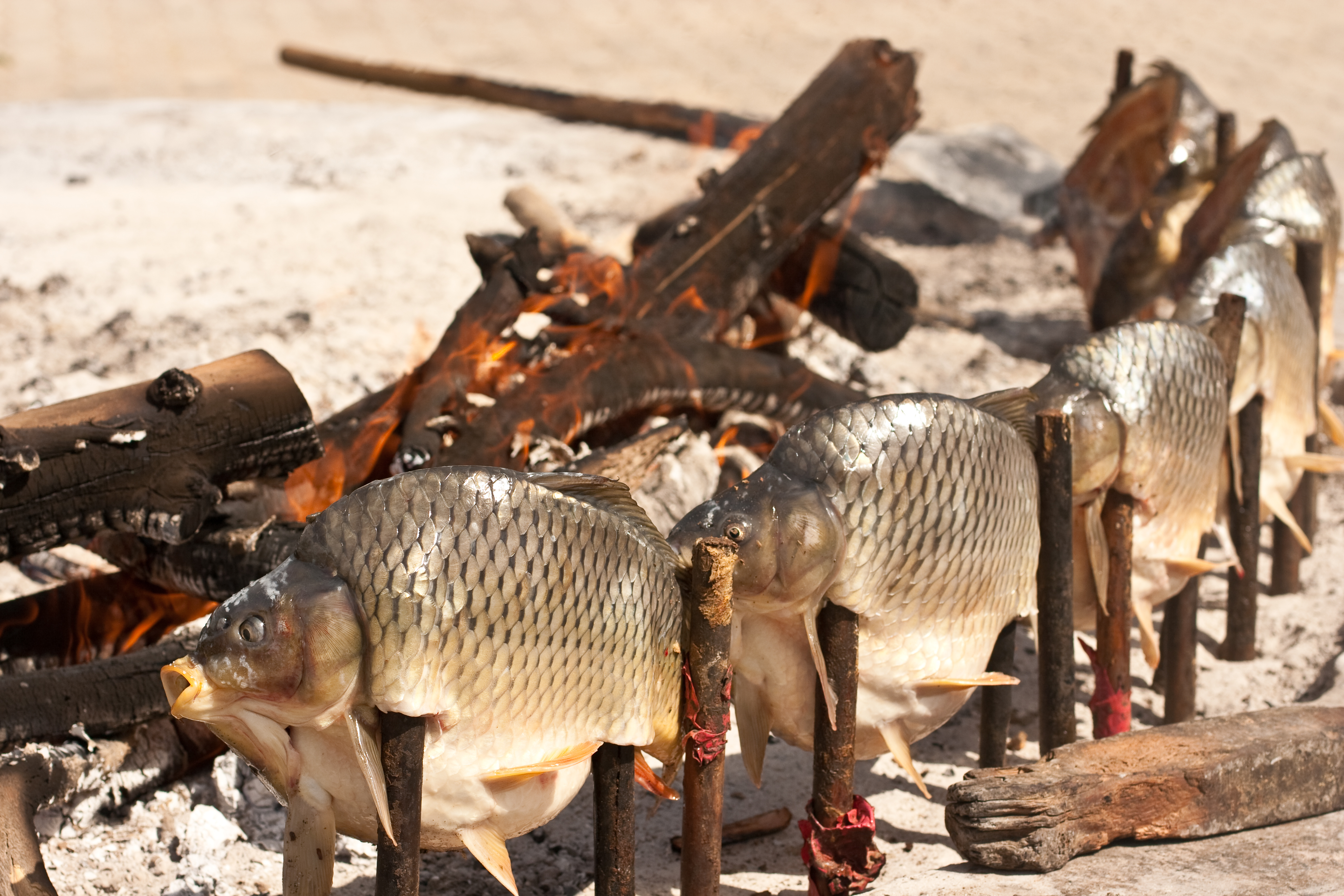 A river carp caught from the Tigris. Photo by Omar Chatriwala